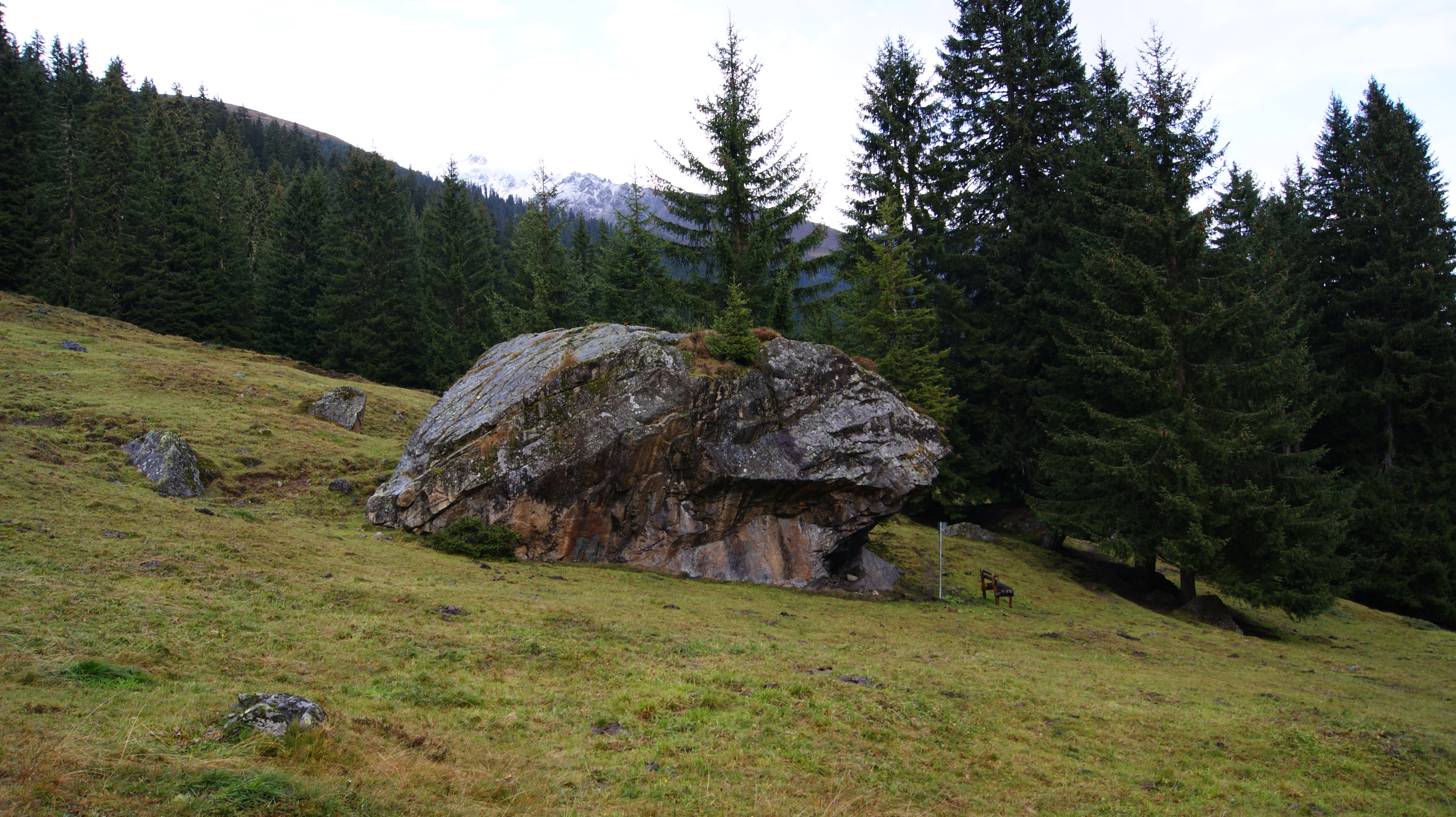 Gitzistee (Ziegenstein) im Valzifenztal in Gargellen (Vorarlberg, Österreich). Dieses Bild wurde anlässlich des österreichischen Tags des Denkmals 2017 in Vorarlberg eingereicht.